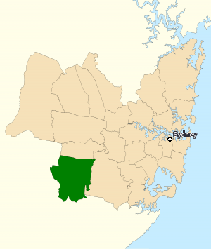 This image incorporates data that is: © Commonwealth of Australia (Australian Electoral Commission) 2009 Division of Werriwa 2010